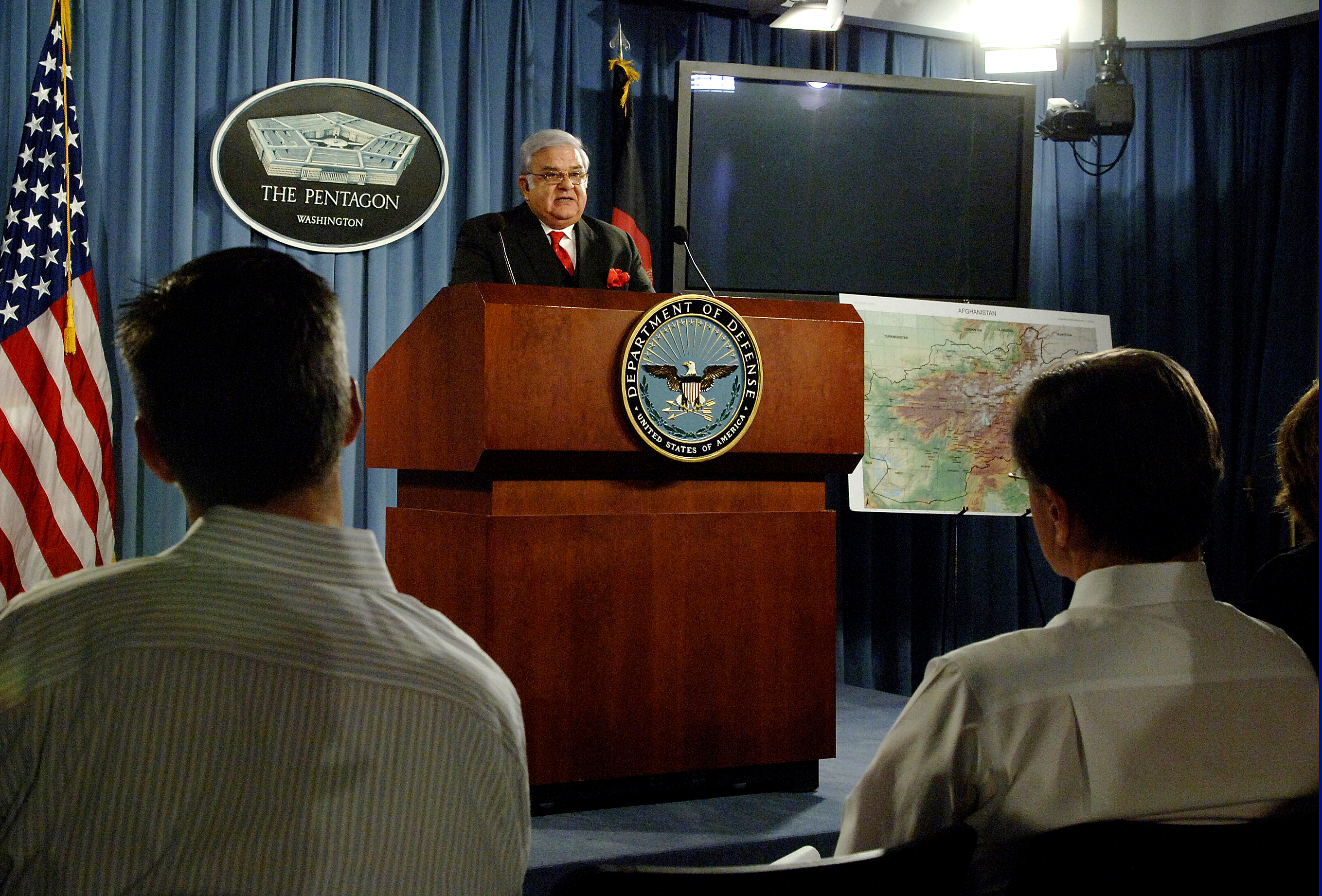 Afghan Minister of Defense Abdul Rahim Wardak conducts a news briefing at the Pentagon Nov. 21, 2006. U.S. Army Lt. Gen. Karl Eikenberry, commanding general of Combined Forces Command - Afghanistan, accompanied Wardak who also met with Secretary of Defense Donald H. Rumsfeld earlier in the day. Defense Dept. photo by Helene C. Stikkel